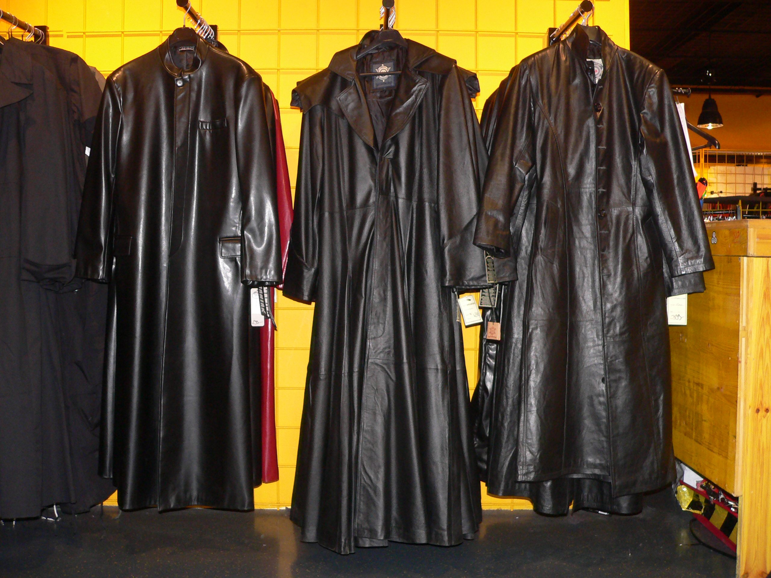 Elements of Gothic fashion None of these photographs would have been possible without the kind autorisation of the store Maniak at the Flon in Lausane, to which we express our thanks.